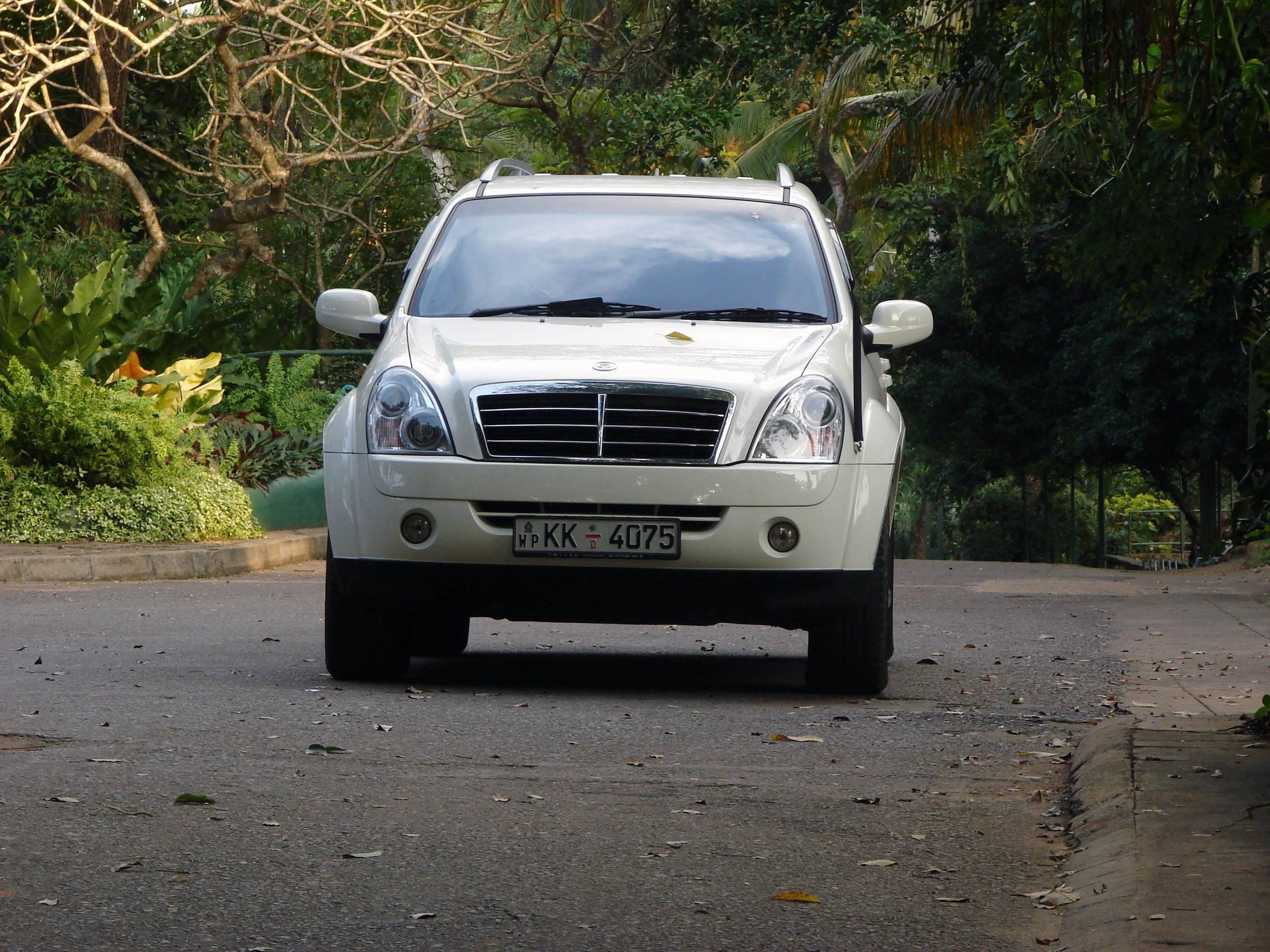 Micro Rexton II